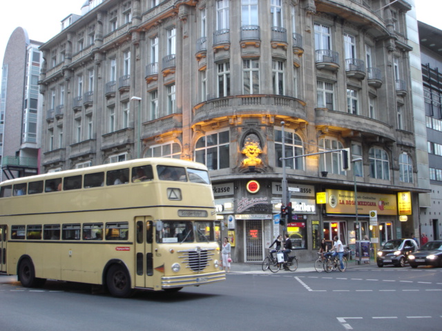 Historic Double-decker Bus Büssing, City of Berlin (Germany), Kochstraße/Friedrichstraße crossing. This BVG bus belongs to the fleet of the Arbeitsgemeinschaft Traditionsbus Berlin